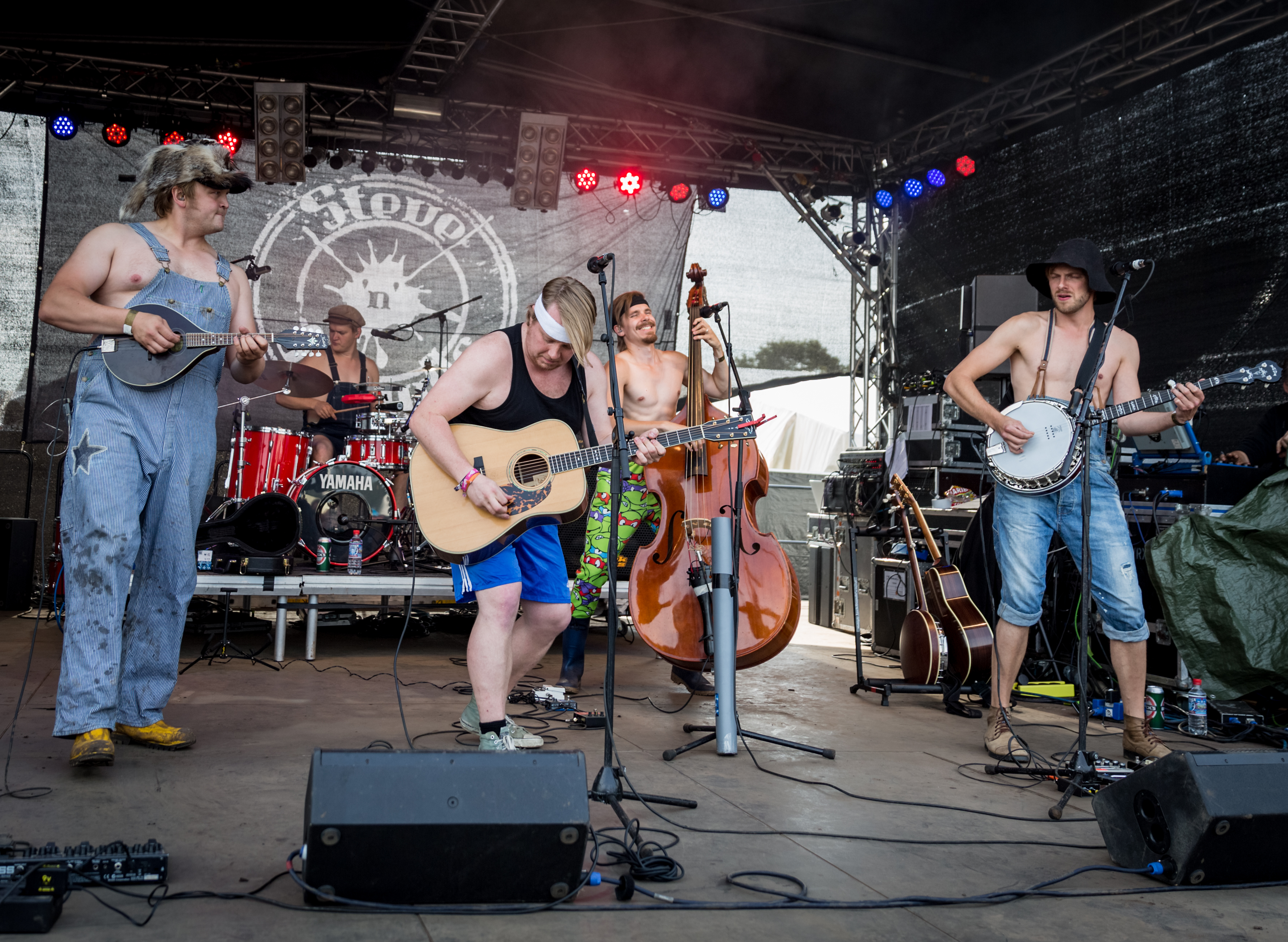 Steve N´Seagulls - Wacken Open Air 2015